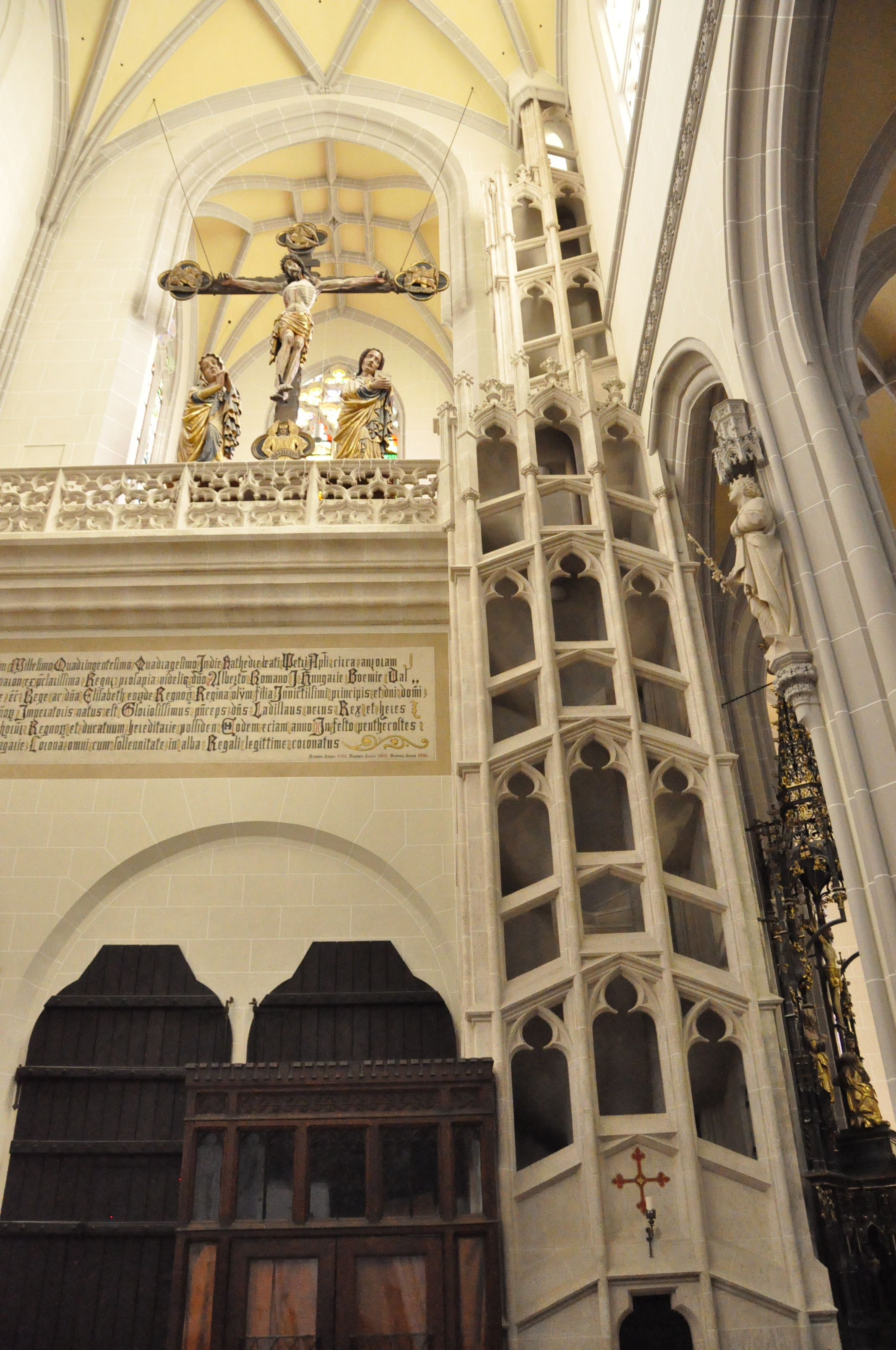 St.Elisabeth Cathedral,Košice,Slovakia